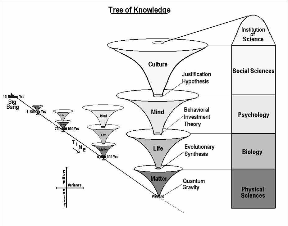 Description = Picture of Tree of Knowledge Source = self-made Date = created February 2, 2005 Author = Gregg Henriques Permission = I give permission for this file to be used in Wiki.